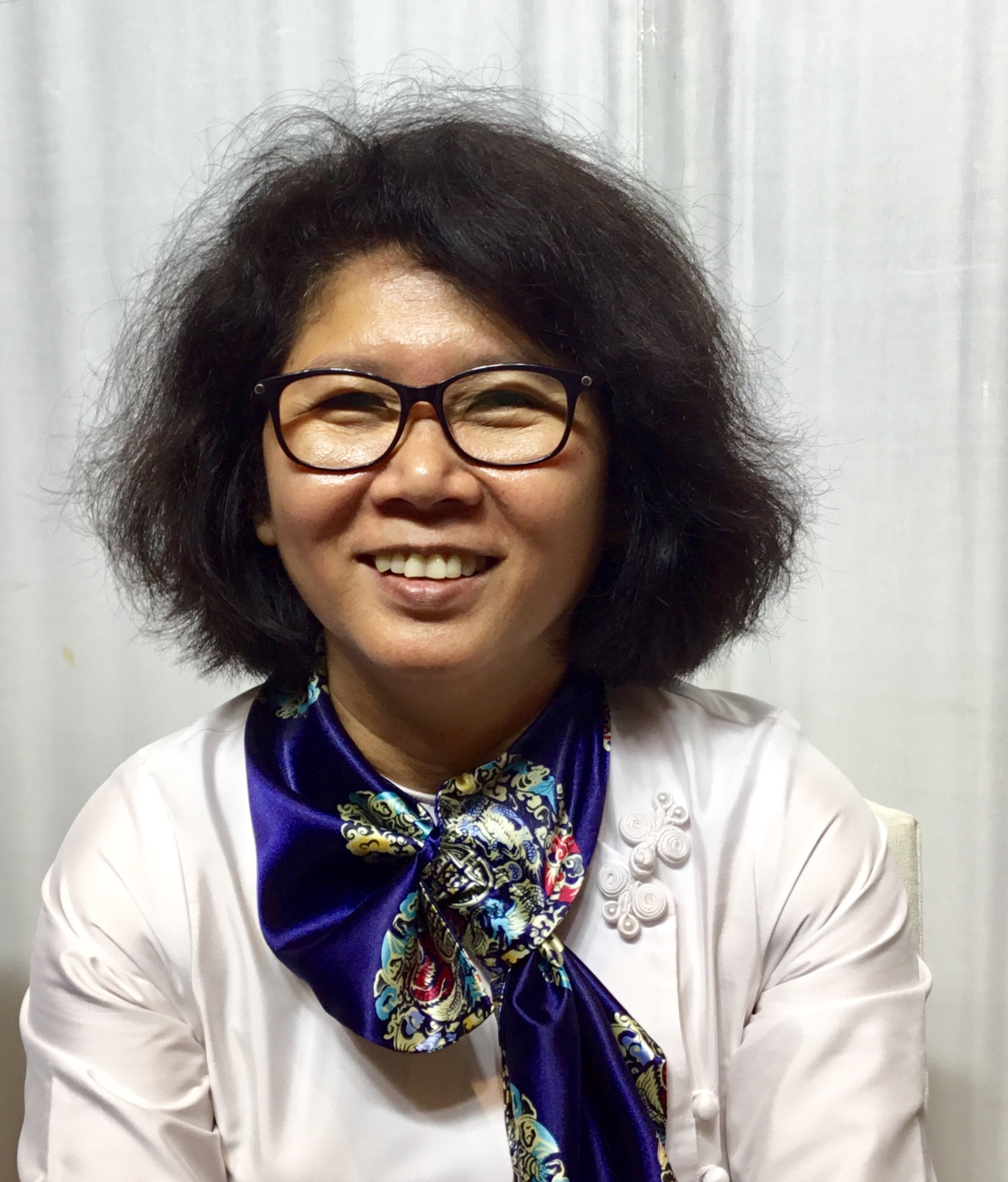 Ma Thida is a Burmese surgeon, writer, human rights activist and former prisoner of conscience. မြန်မာဘာသာ: မသီတာ (စမ်းချောင်း) သည် စာရေးဆရာ ဆရာဝန်တစ်ဦးဖြစ်ပြီး နိုင်ငံရေးအကျဉ်းသားဟောင်းတစ်ဦးလည်း ဖြစ်သည်။